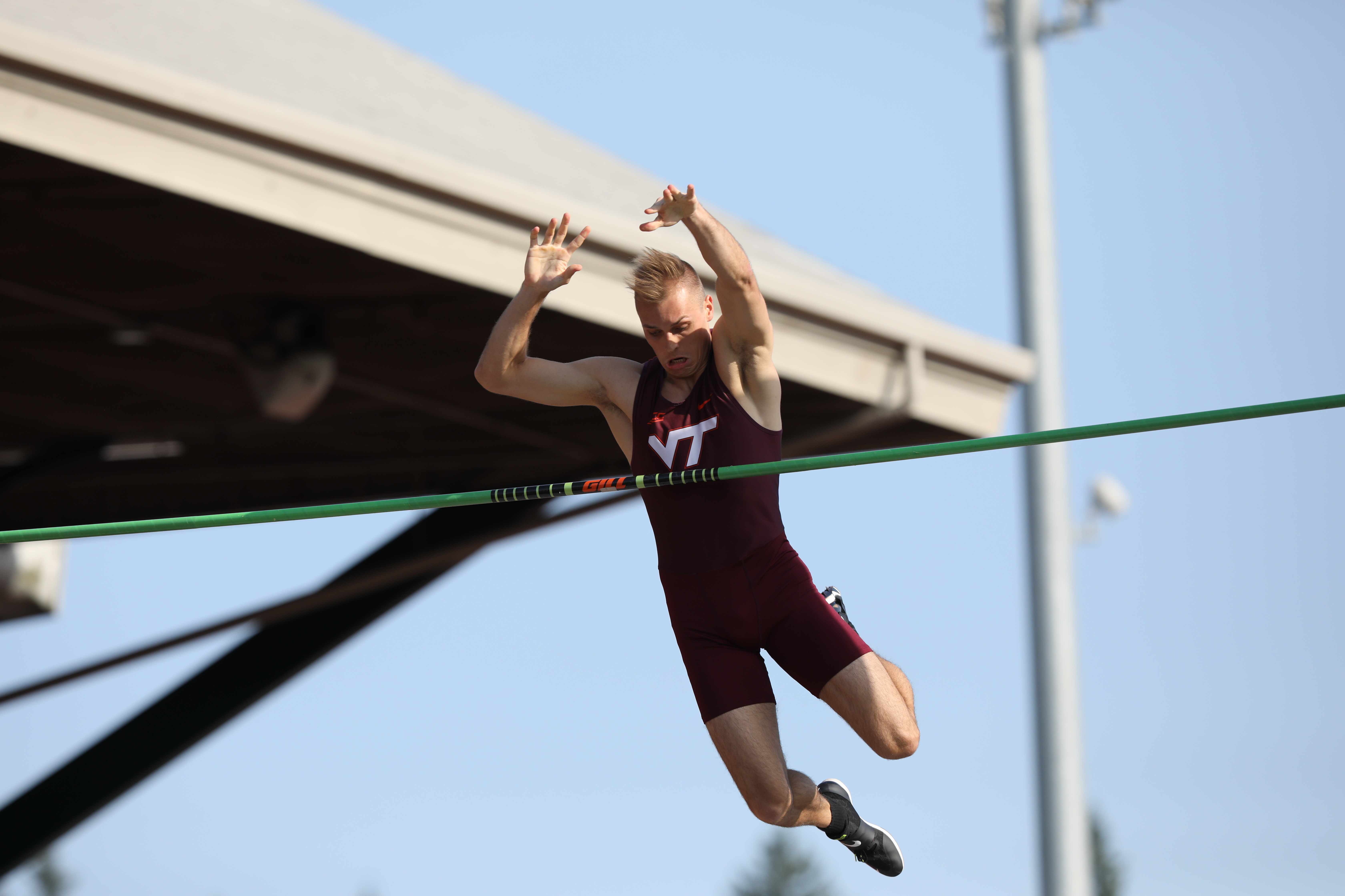 2018 NCAA Division I Outdoor Track and Field Championships